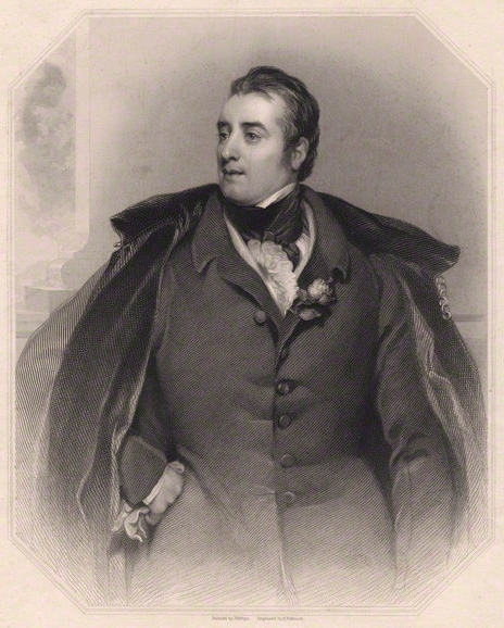 Portrait of George Finch-Hatton, 10th Earl of Winchilsea (1791-1858), by John Henry Robinson, published by R. Ryley, published by James Fraser, published by Sir Francis Graham Moon, 1st Bt, after Thomas Phillips, stipple engraving, published 1839.